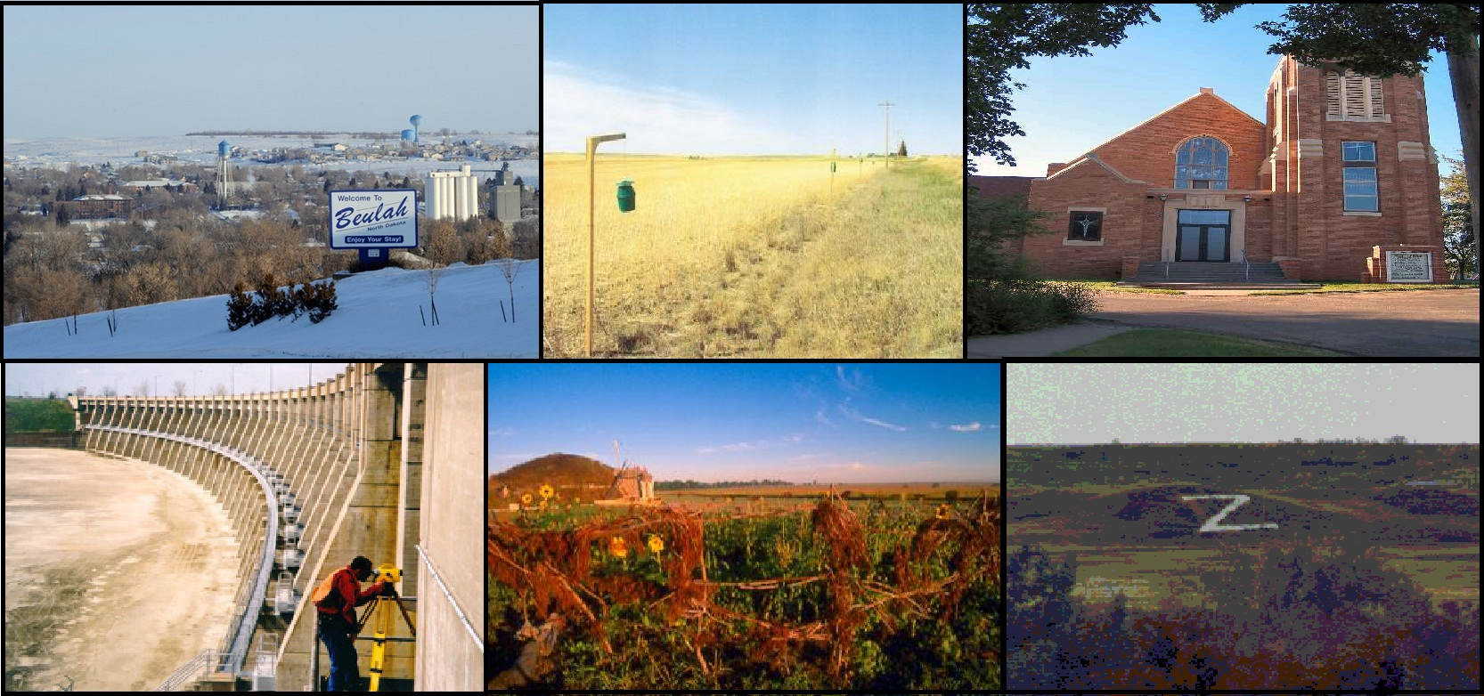 A collage of photos from Mercer, North Dakota.